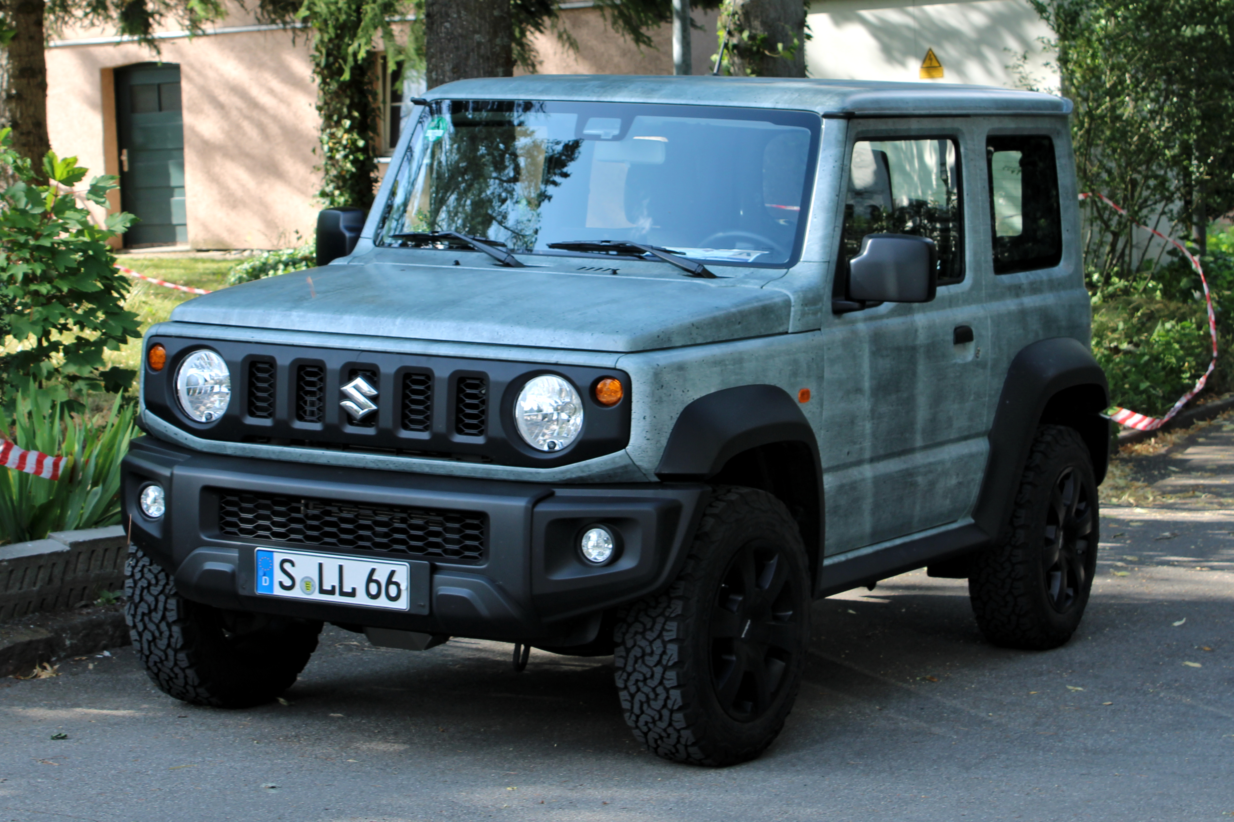 Suzuki Jimny at Solitude Revival 2019